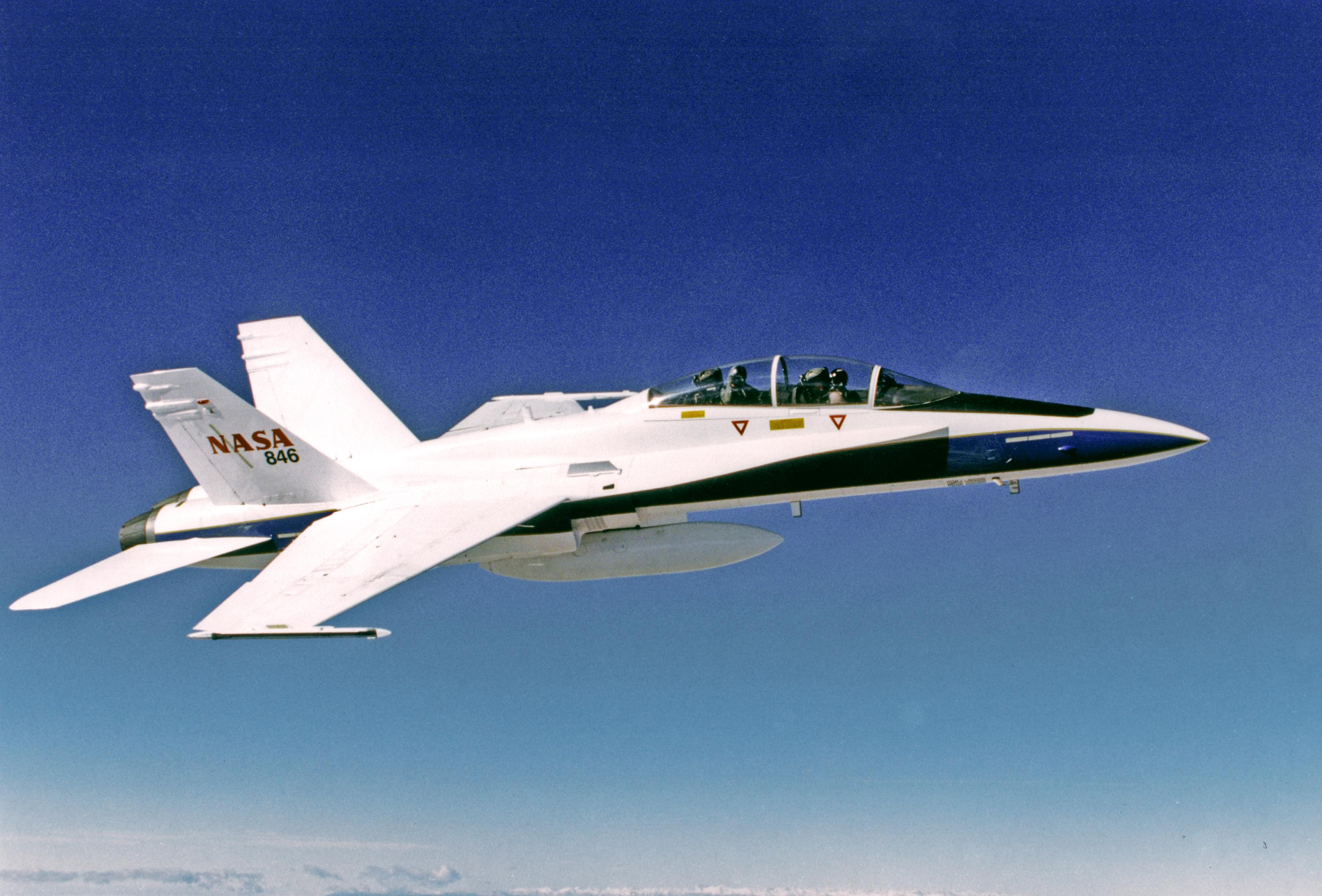 An F-18B aircraft in flight used as a chase and support aircraft on Dryden research missions.